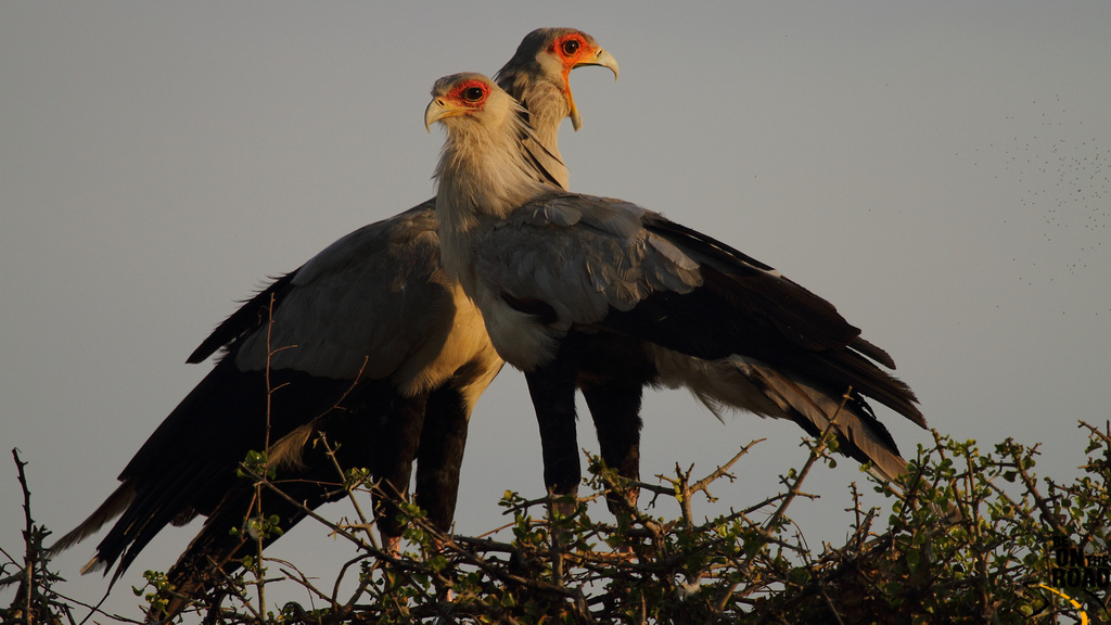 Check out the beaks of these Secretary Birds...I guess no one wants to get caught in that